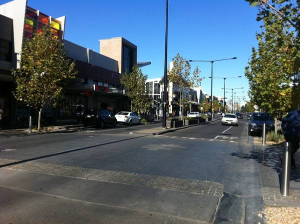 Main Street Point Cook Town Centre.